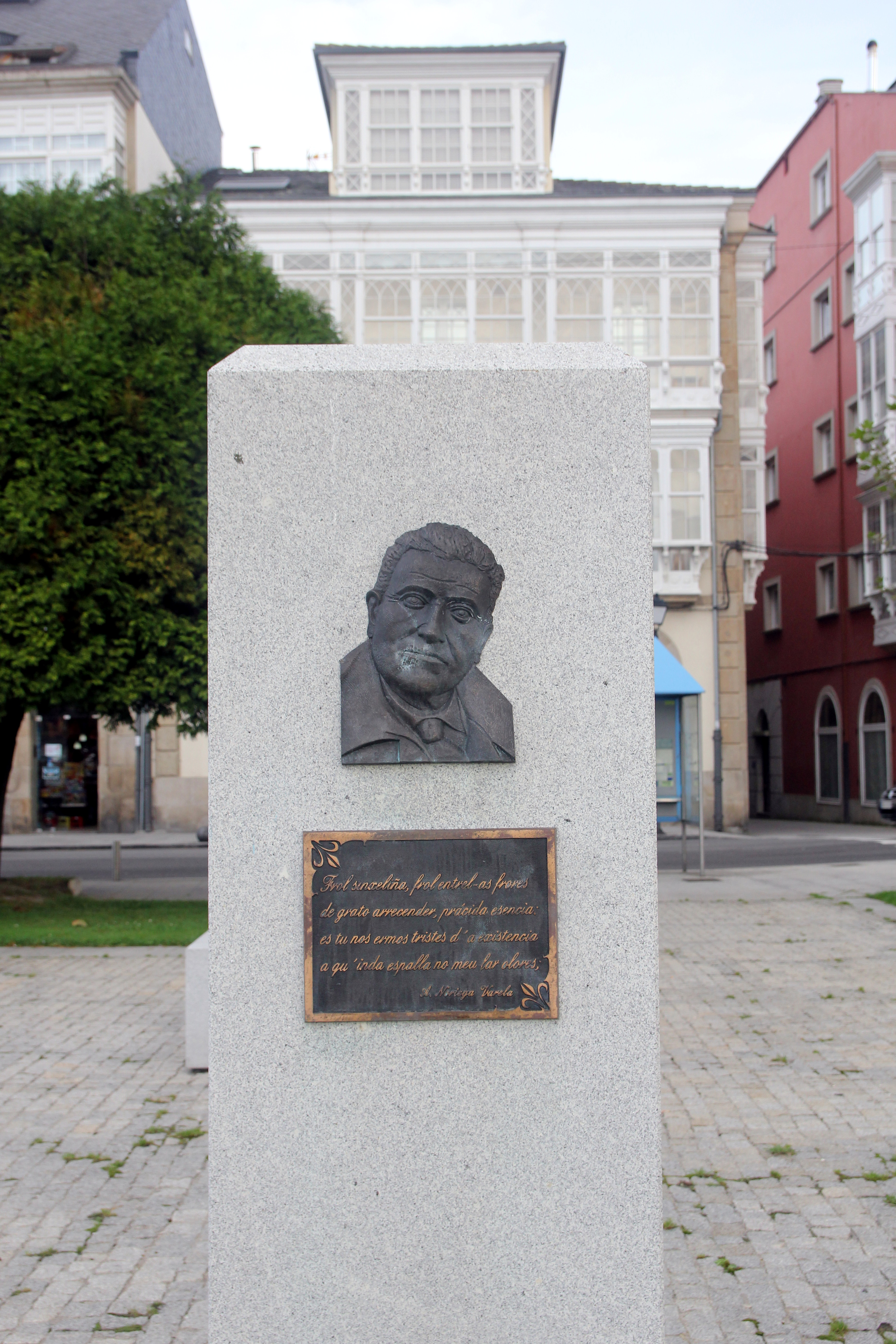 Plaque dedicated to Antonio Noriega Varela in the homonymous park in Viveiro, Galicia, Spain.